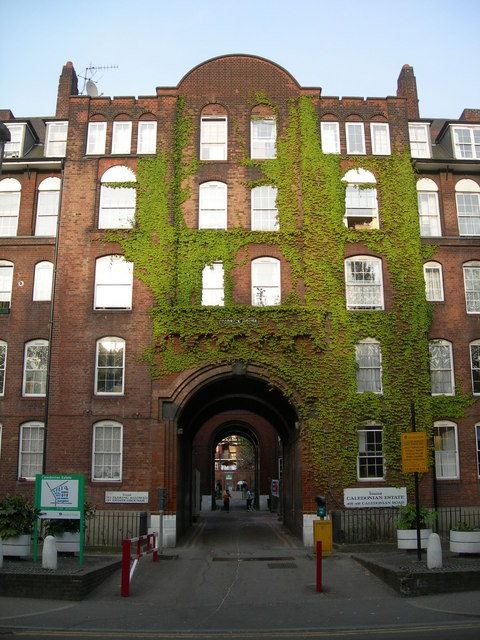 Entrance to Caledonian Estate, Caledonian Road The block at the front is Carrick House and through the arches are the blocks behind. This is an estate owned and managed by Islington Council. 2 of the 4 signs at the front are "No Parking" signs.